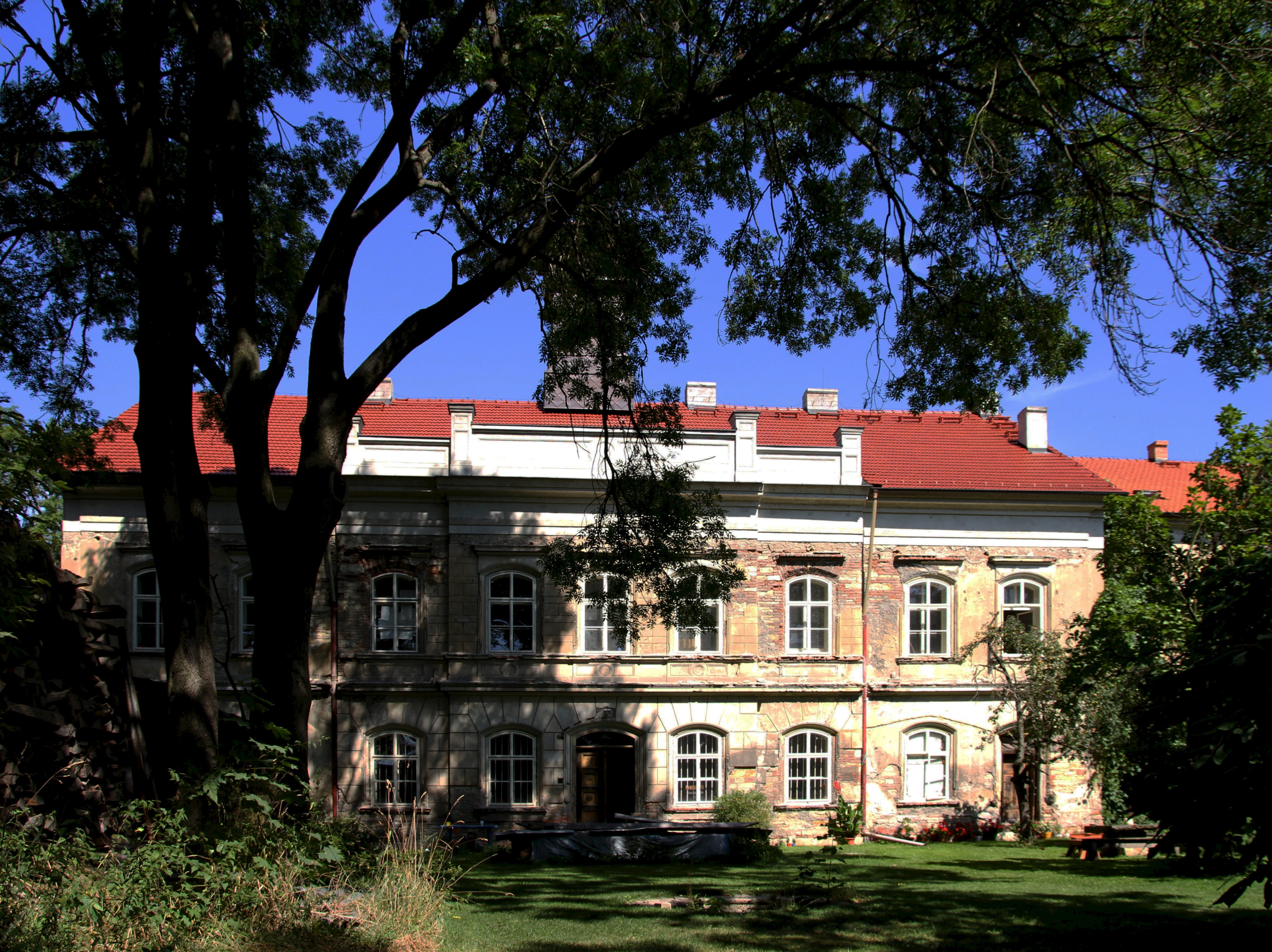 Classicist chateau, part of farm Nový Dvůr in Pavlov, Central Bohemian Region, Czech Republic.